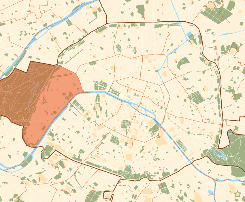 Plan by ThePromenader (own work)